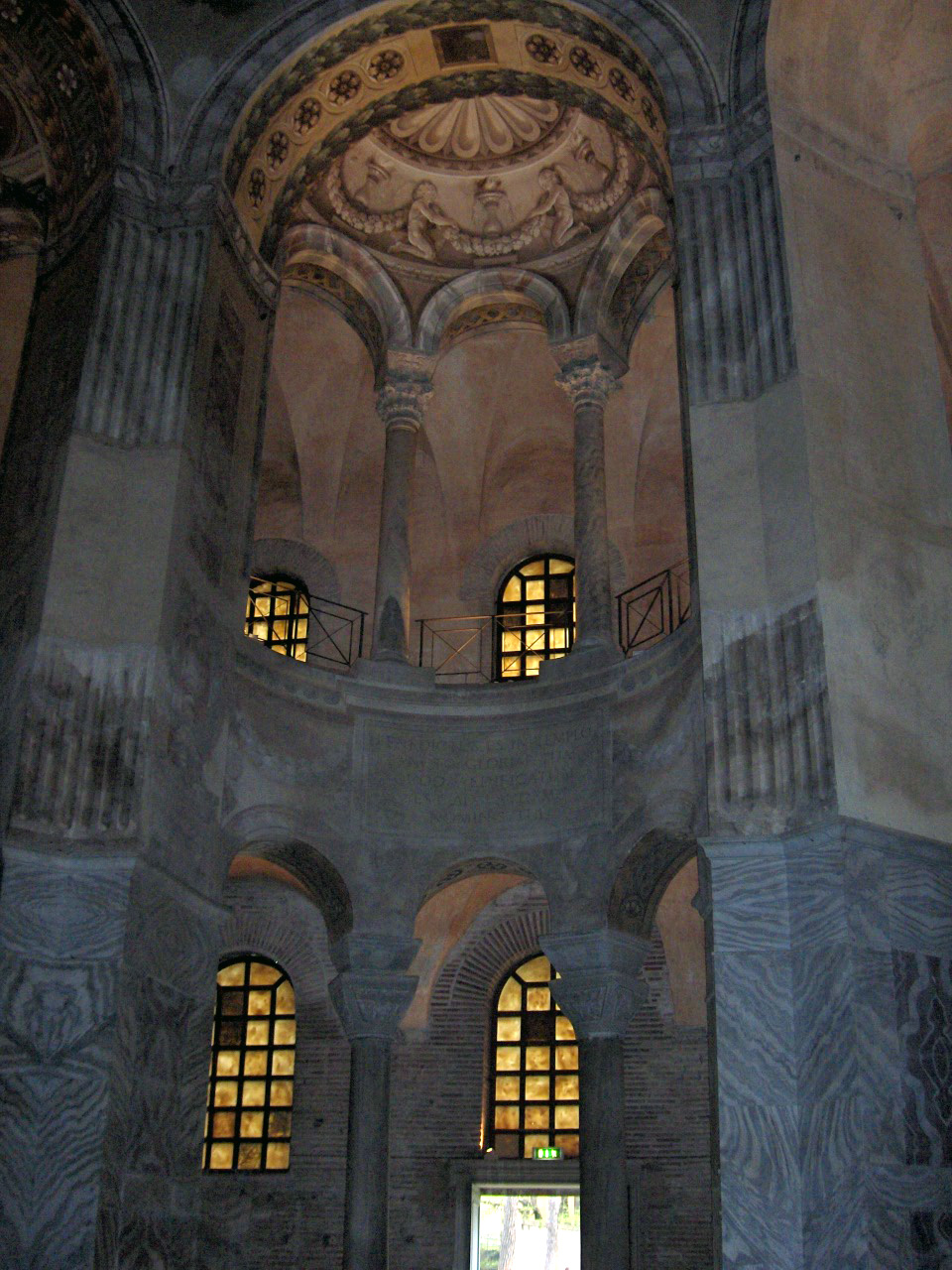 Interior with the two ambulatories; Basilica of San Vitale in Ravenna, Italy.